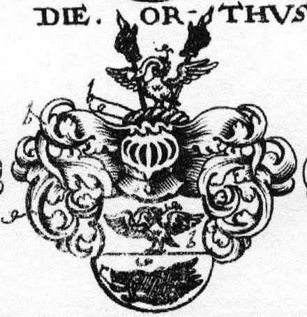 Coat of arms of Orthus family, accordimng to Siebmacher's Wappenbuch, Part 4: "Beadelte", 139